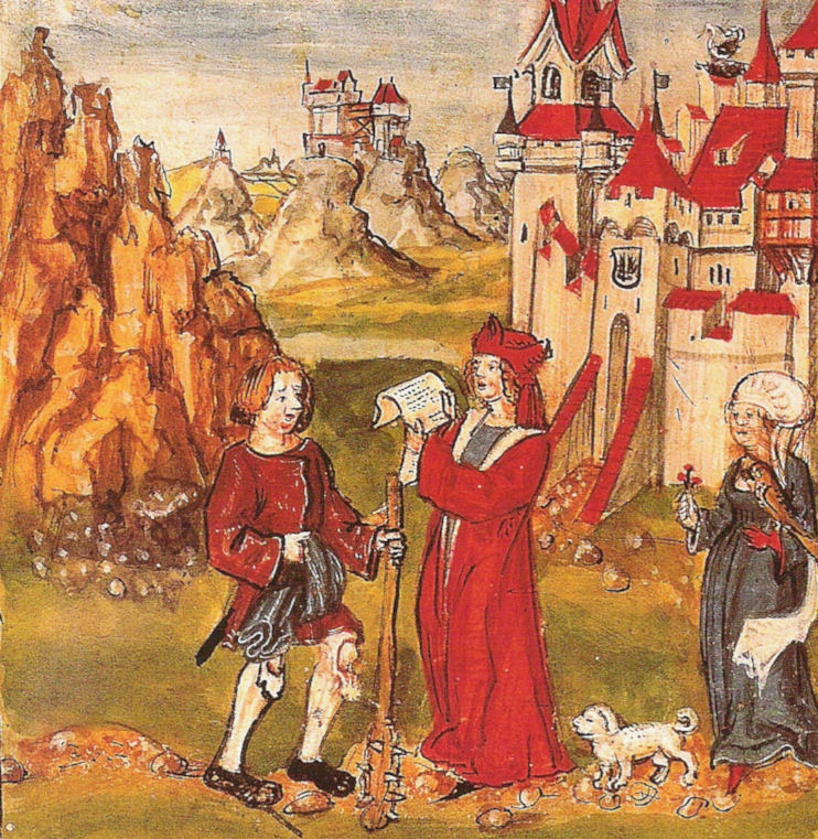 A complaint sent by the Lord of Regisheim and relative to the salary of a barrels maker is read by Thuring III von Hallwyl.